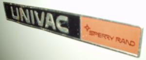 UNIVAC SPERRY RAND Computer Label found in Athens, Greece. 300x124px. Photographed by Optim on 13th January 2004 00:40AM UTC+02 UNIVAC® has been, over the years, a registered trademark of Eckert-Mauchly Computer Corporation, Remington Rand Corporation, Sperry Rand Corporation, Sperry Corporation, and Unisys Corporation.